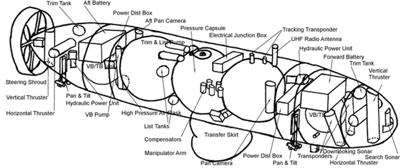 Simple drawing of the DSRV main systems